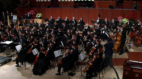 Orchestra at Temple Square